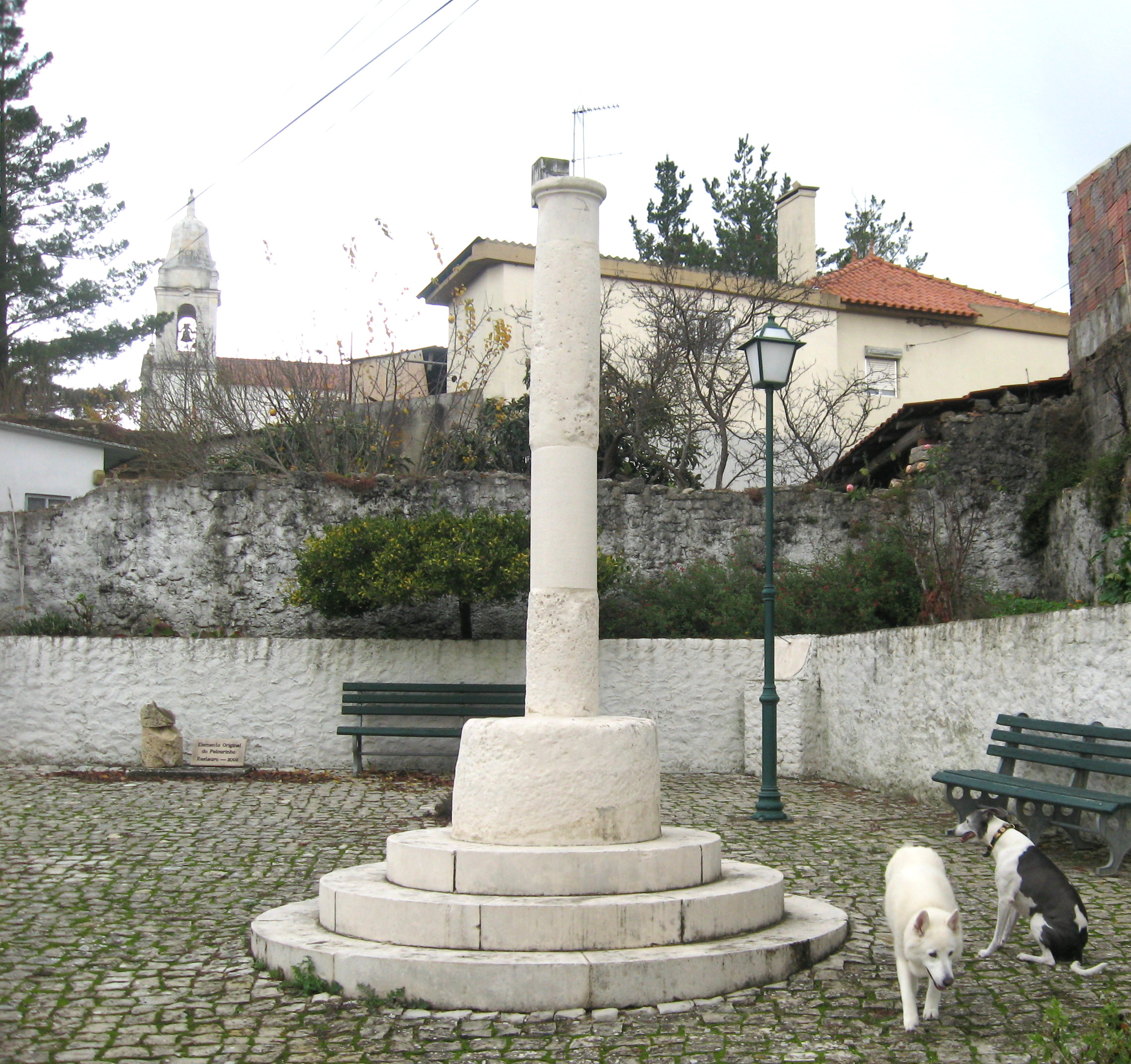 Alpedriz, Portugal, historical city belonging to the Military Order of Aviz, since 13th century until 1834, Pelourinho (pillory) 16th century, restored